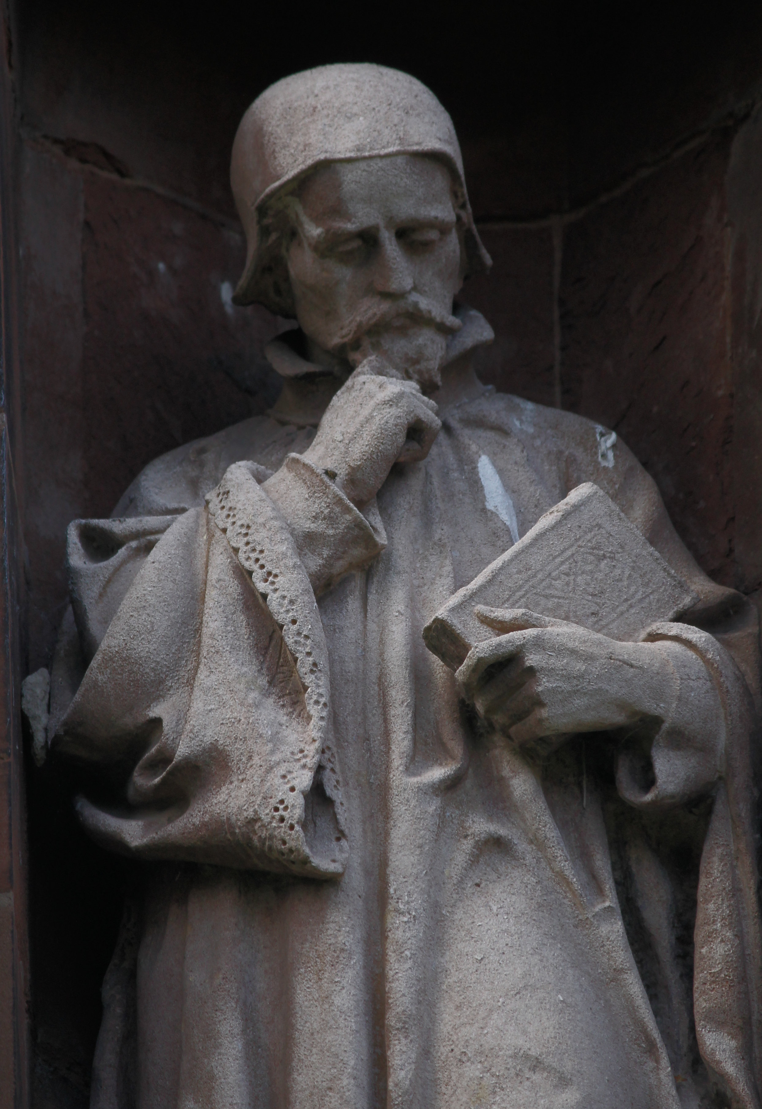 Sculpture of Thomas Huet on the Translator of the Bible Memorial, St Asaph, North Wales. He assisted Richard Davies and William Salesbury in the translation into Welsh of the New Testament in 1567, particularly the Book of Revelation.